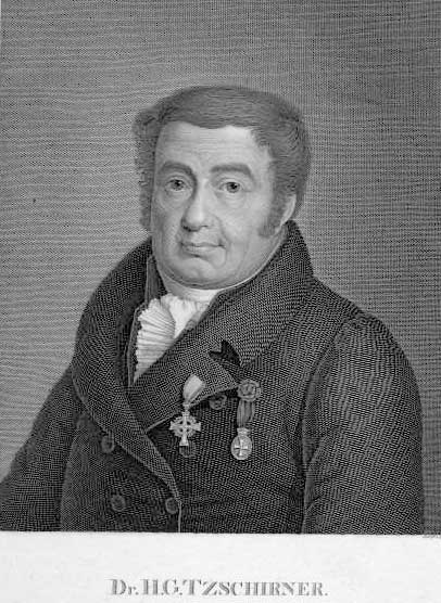 Heinrich Gottlieb Tzschirner (1778-1828) Protestant theologians from Germany